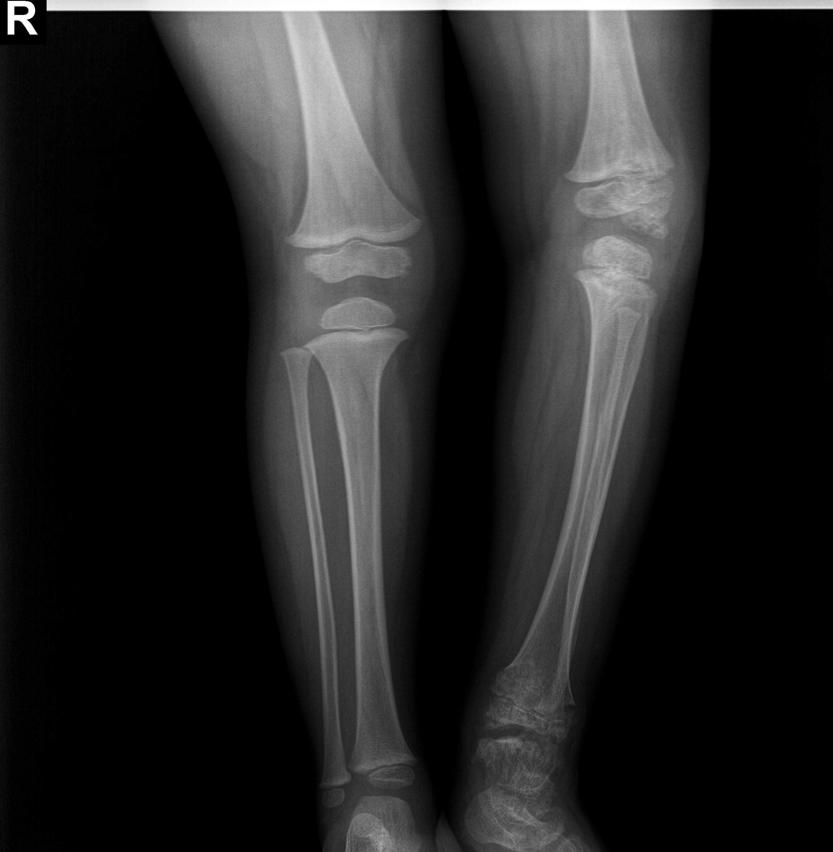 Radiographs showing irregularities on the left ankle and knee joint .Notice the hemimelic involvement